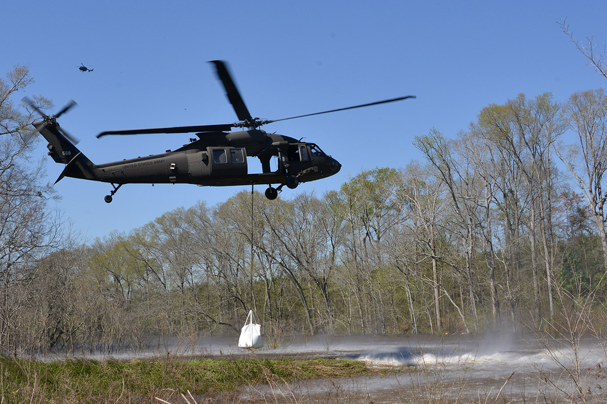 Louisiana National Guard pilots from the Army Aviation Support Facility #3 in Pineville, La., sling-loaded 1,500 pound super sacks of sand with a UH-60 Black Hawk into Bayou Darrow south of Colfax in Grant Parish, La., to slow the flow of water where a control structure failed, March 14, 2016. More than 1,400 Guardsmen have supported the flood fight across Louisiana.